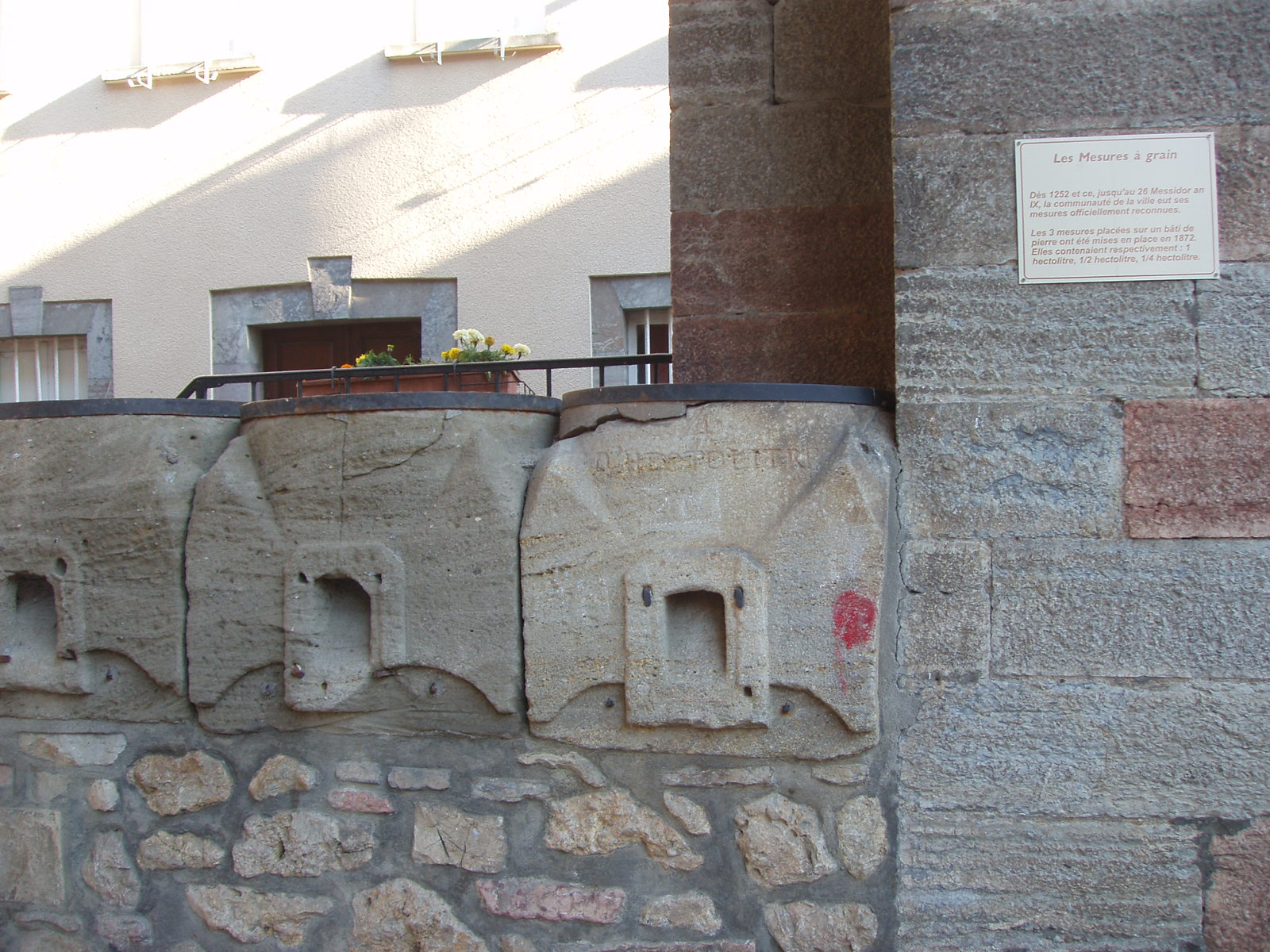 Grain measures in La Bastide-de-Sérou, Ariège, France.